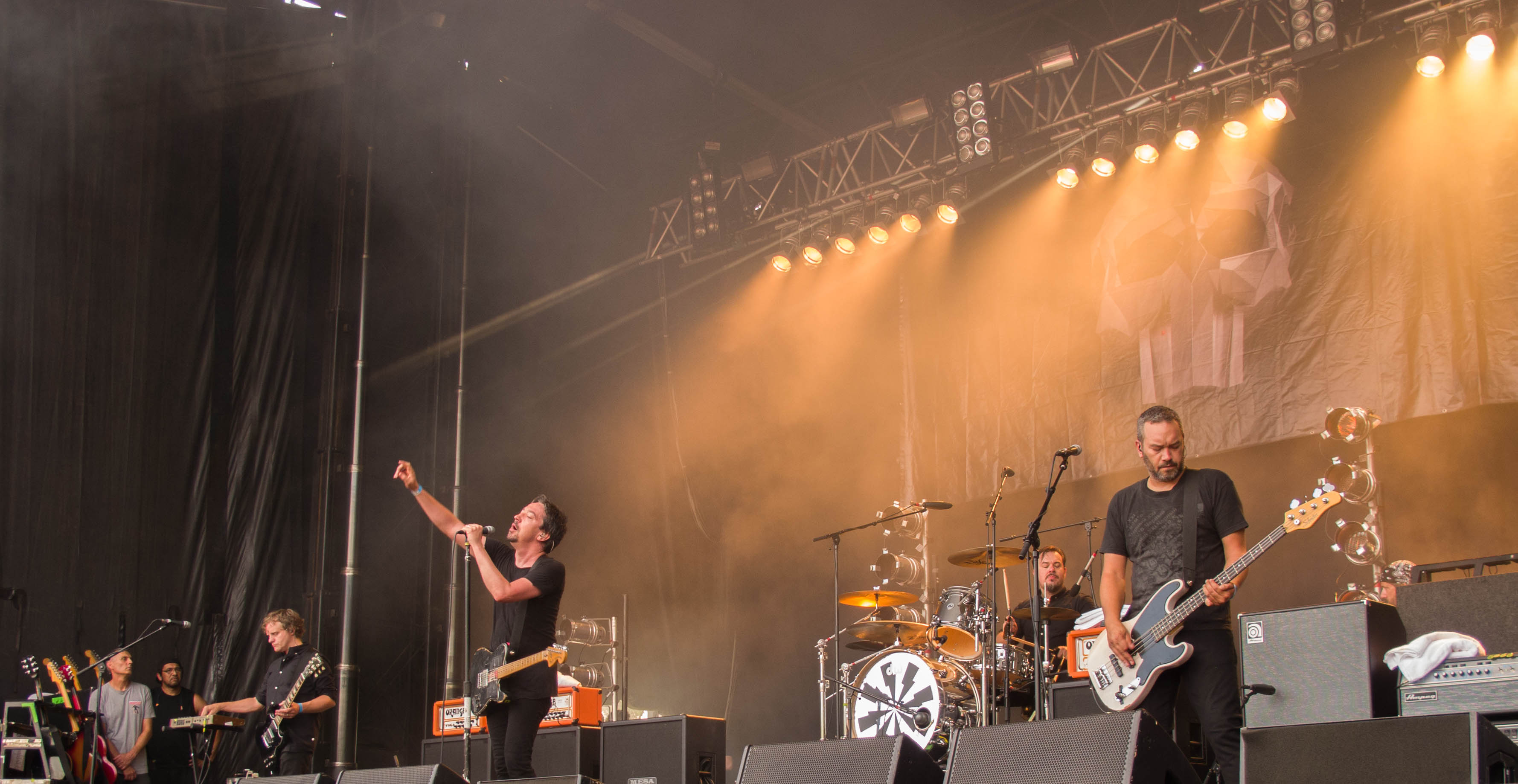 Shihad performing at Grey Lynn Park, Auckland, in 2016.